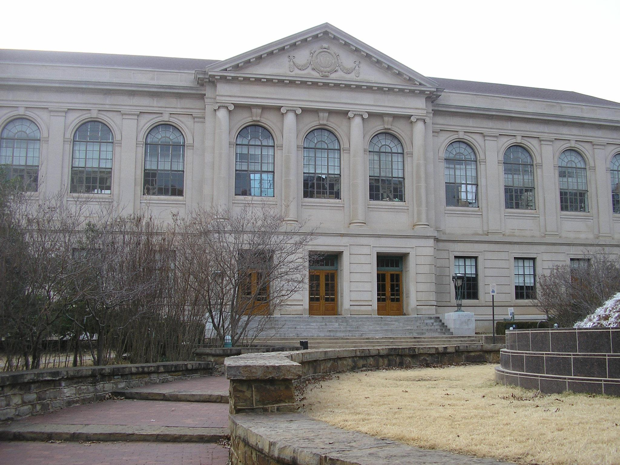 Vol Walker Hall contains the School of Architecture. Vol Walker Hall.